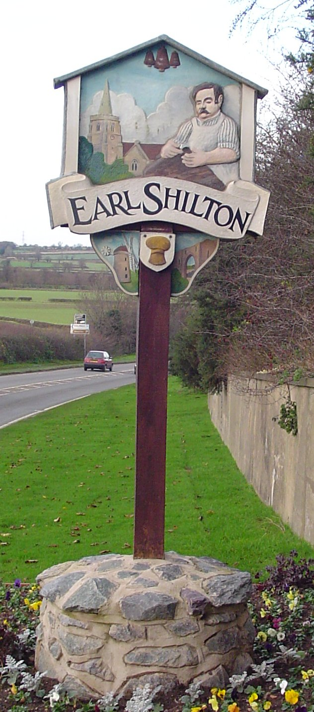 Signpost in Earl Shilton